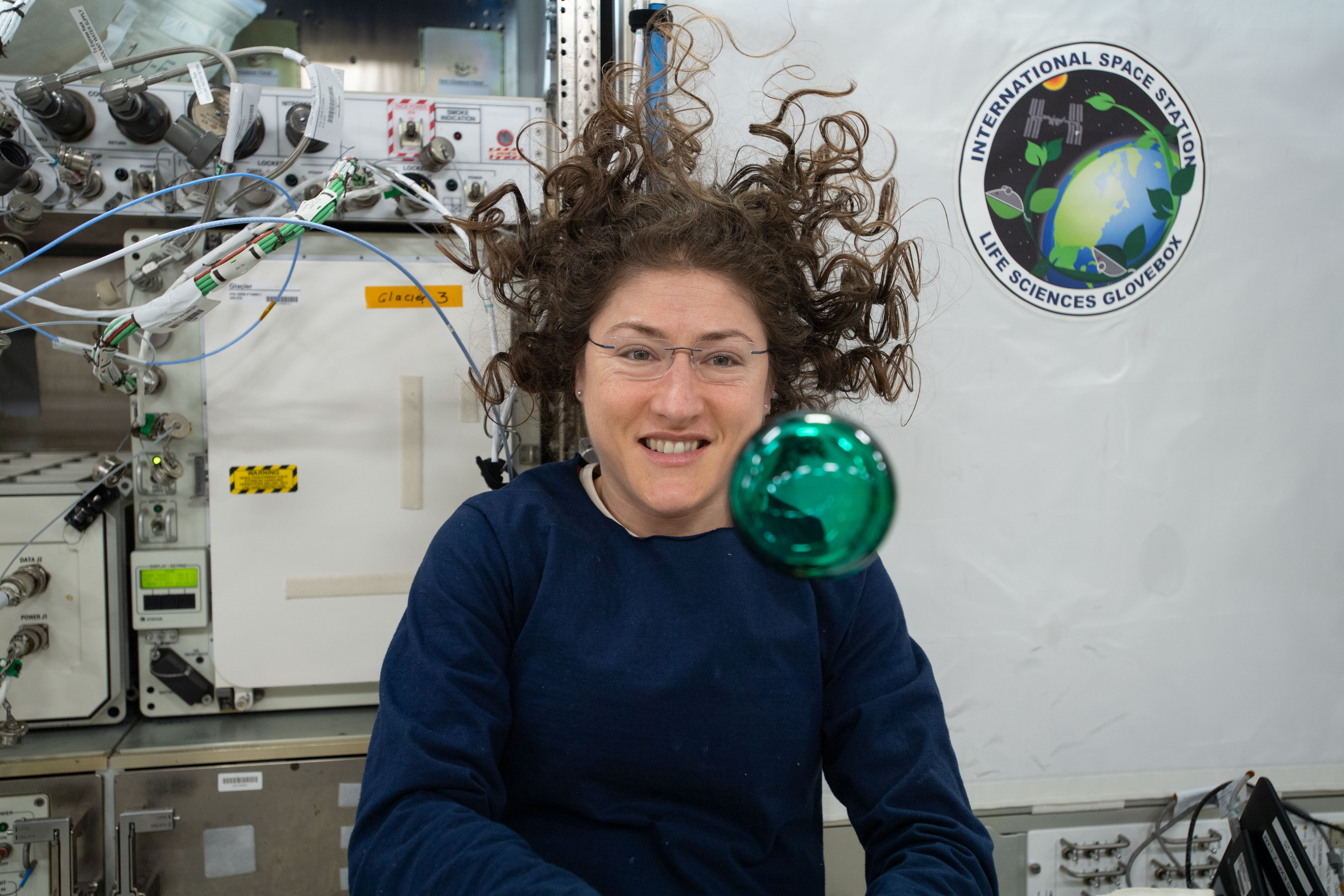 Expedition 60 Flight Engineer Christina Koch of NASA playfully demonstrates how fluids behave in the weightless environment of microgravity aboard the International Space Station.